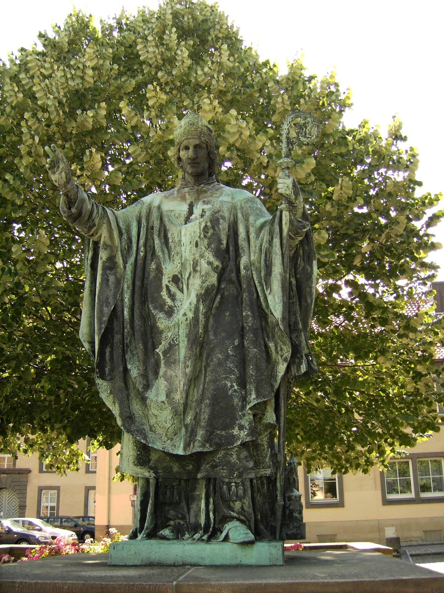 Hildesheim, Domhof, Statue of Bernward of Hildesheim